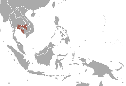 Pileated Gibbon (Hylobates pileatus) range